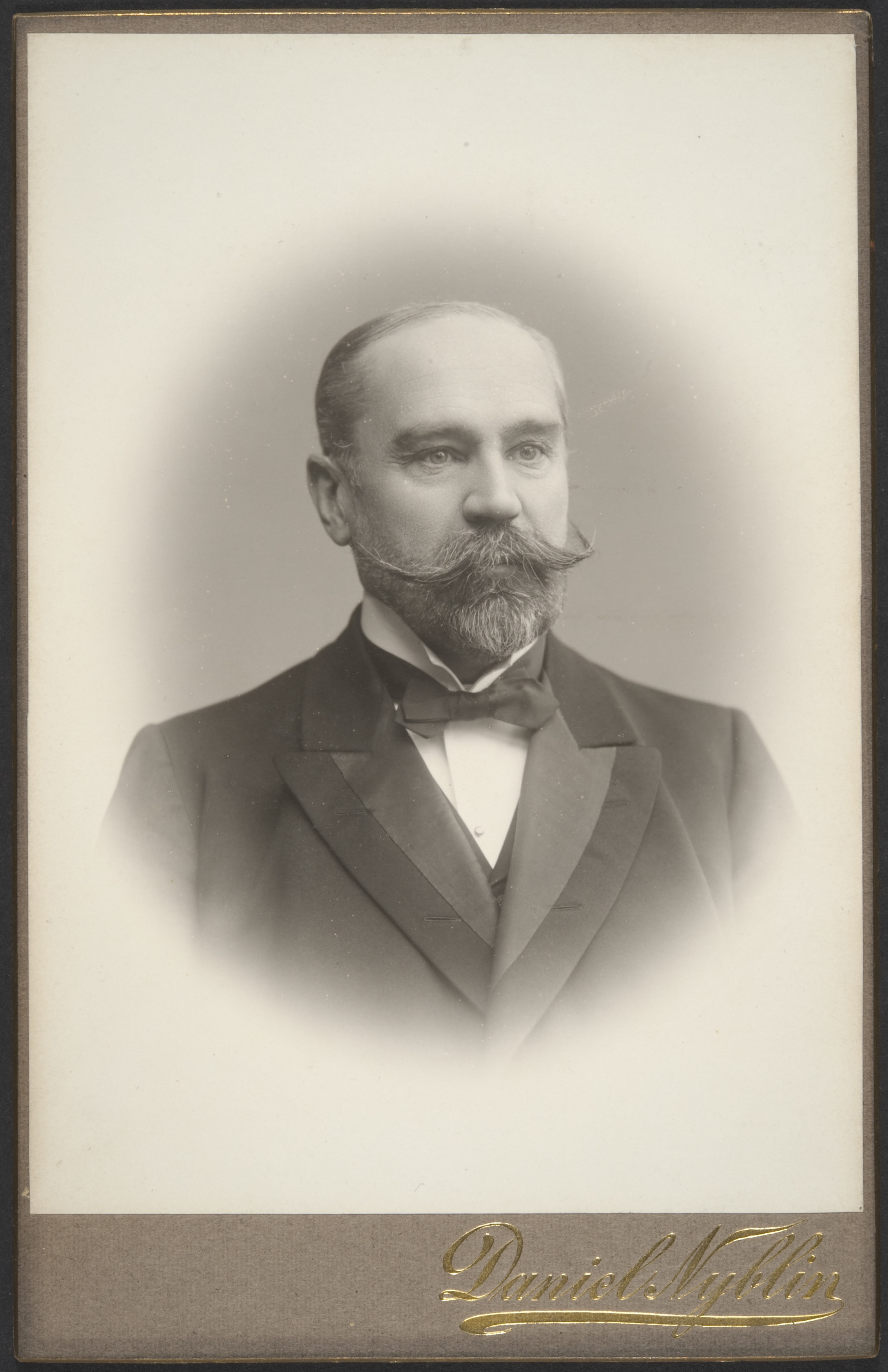 Photograph of the Finnish governor Edvard Krogius (1850–1933).